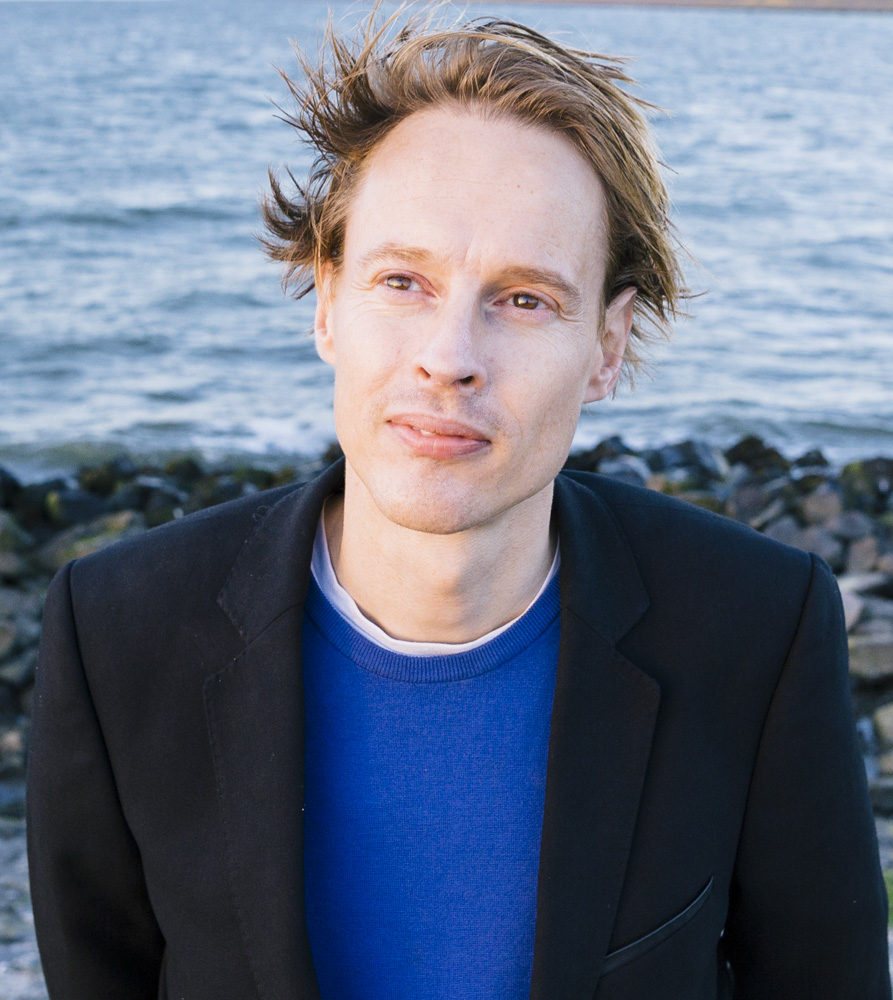 Portrait of Daan Roosegaarde